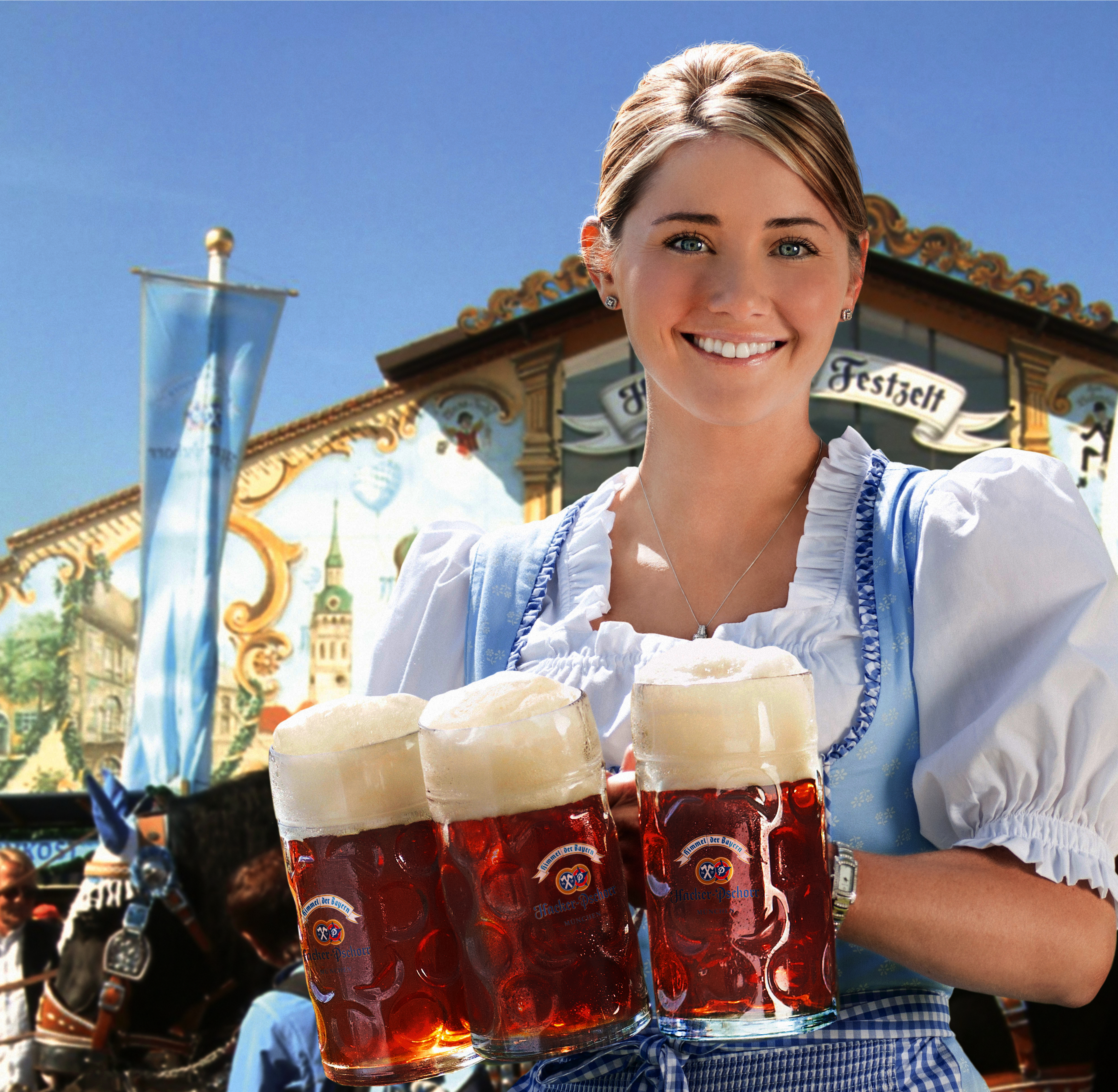 Hacker-Pschorr Oktoberfest Girl in front of Hacker-Pschorr Oktoberfest tent.